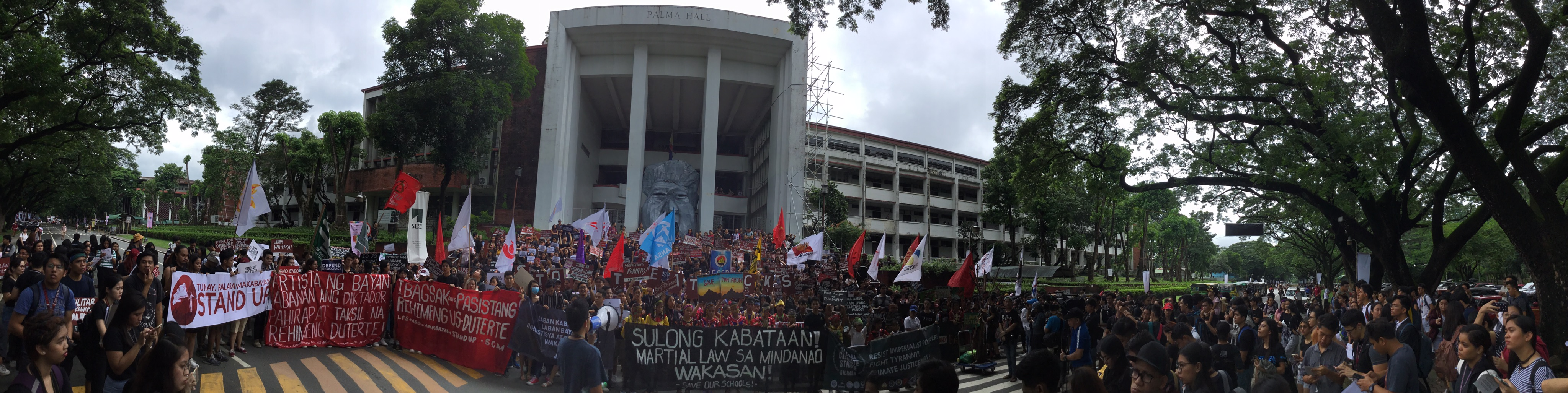 Martial Law 47th Anniversary Mobilization Manila Philippines